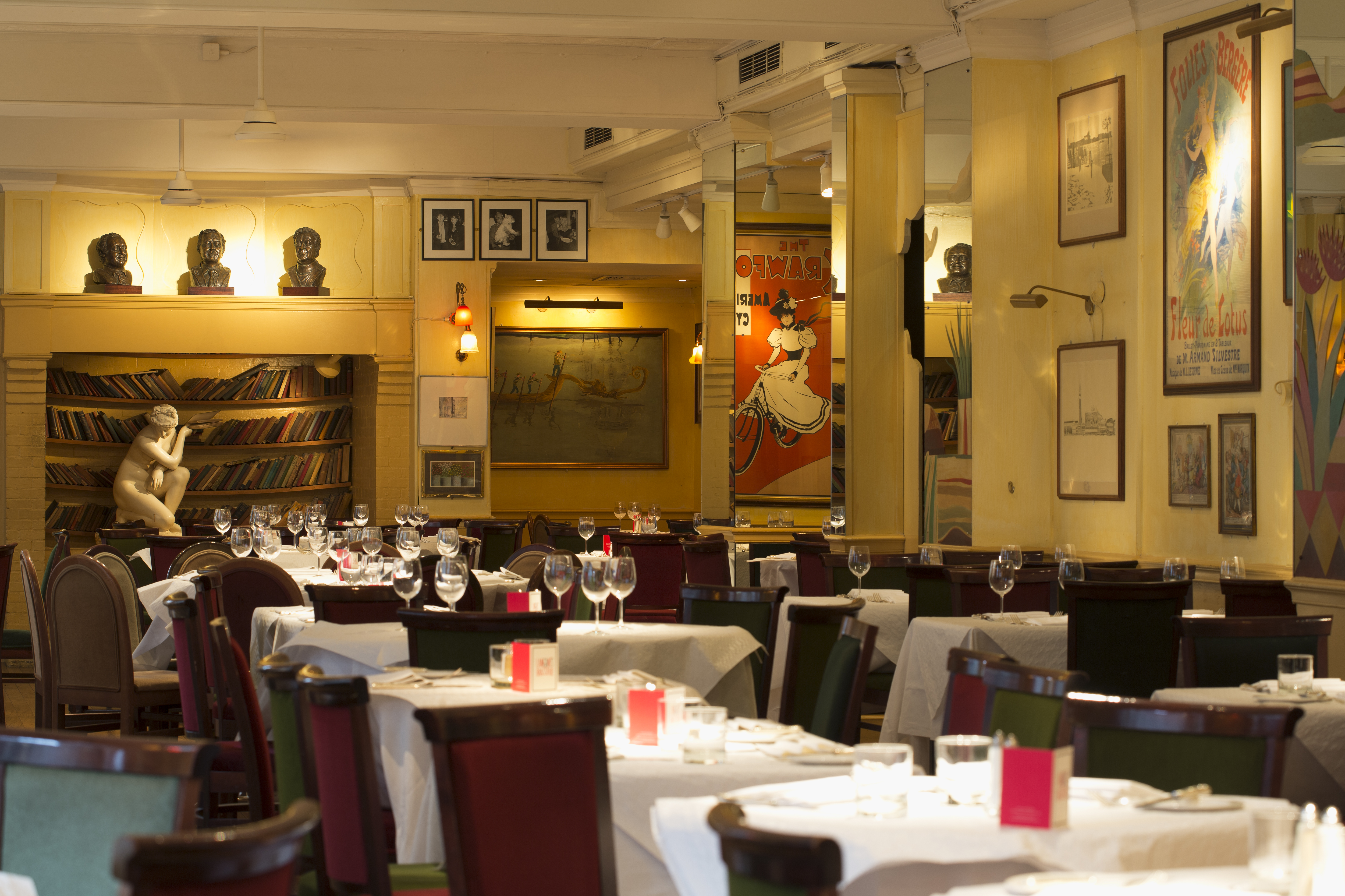 Langan's Brasserie Mayfair London Interior November 2012